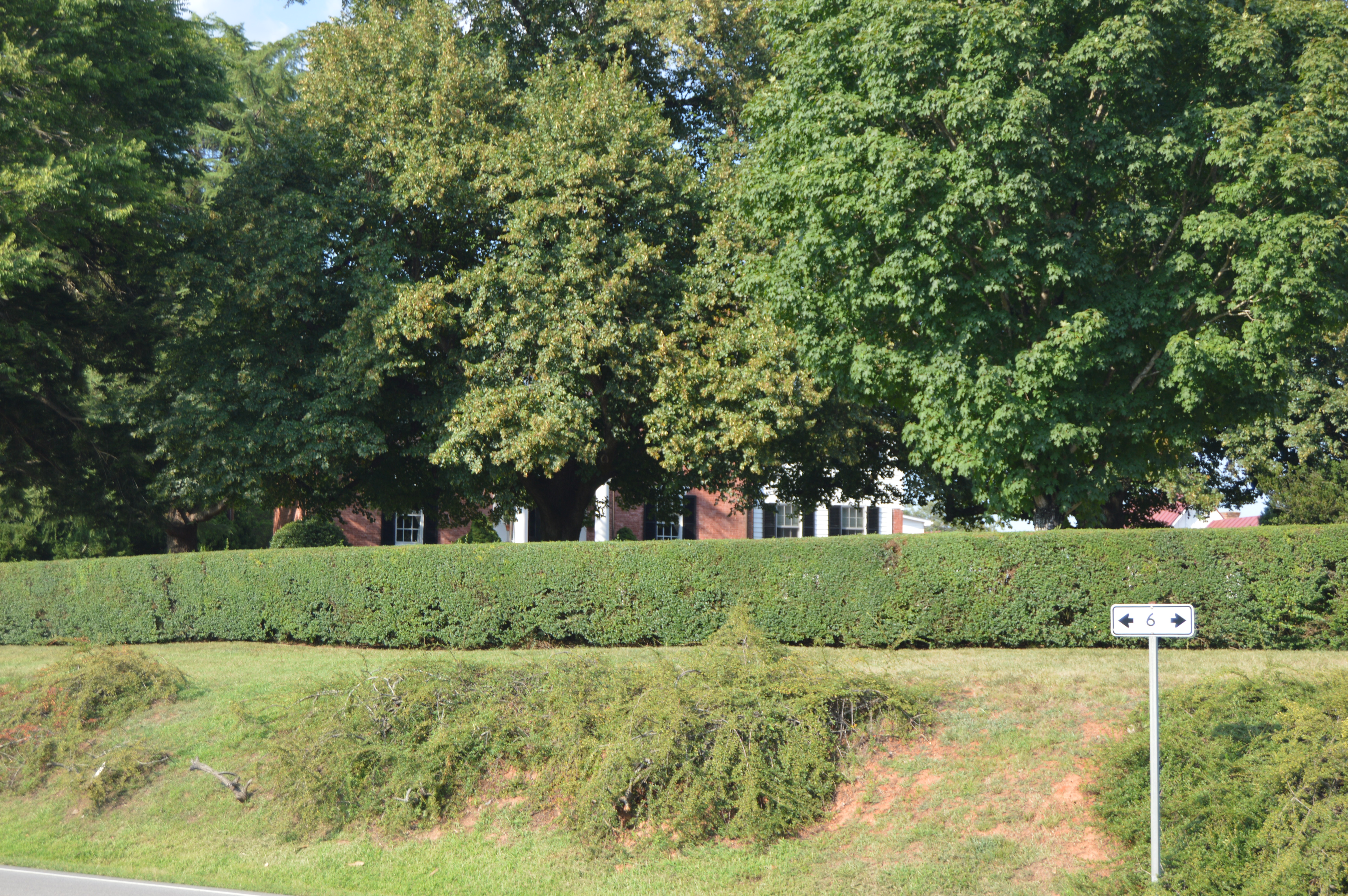 Roadside view of Brightly, located at 2844 W. U.S. Route 322 at Goochland Court House in Goochland County, Virginia, United States. Built in 1842, it is listed on the National Register of Historic Places.